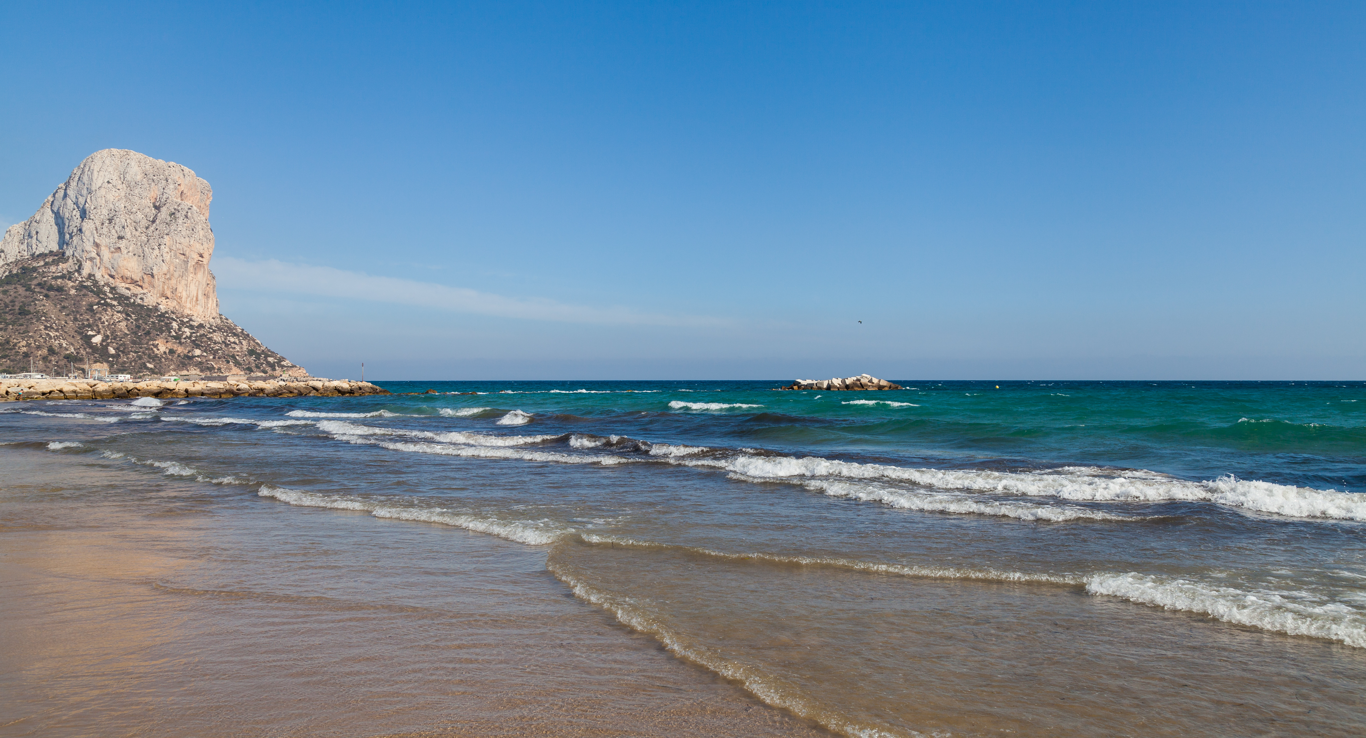 Rock of Ifach, Calpe, Spain